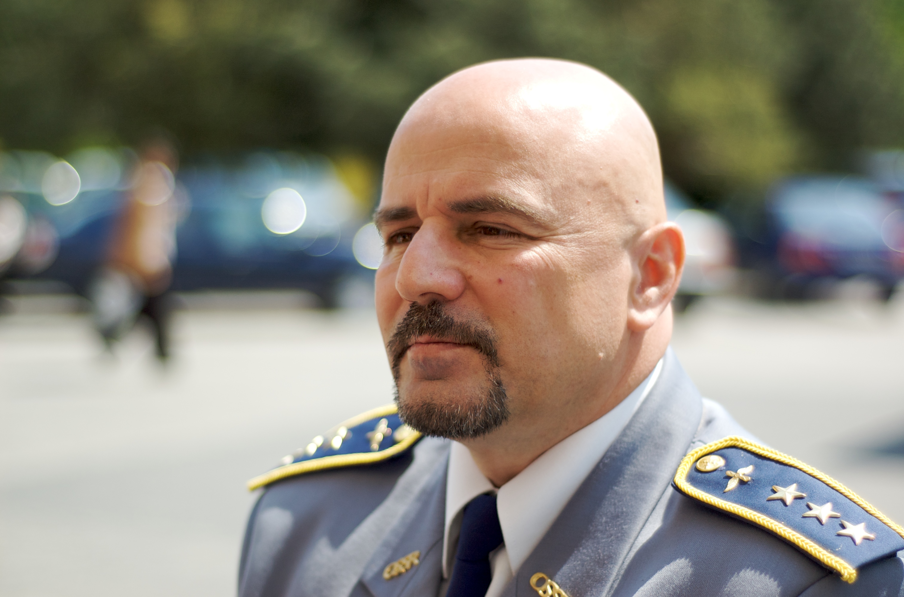 "He was the first Slovak citizen to enter outer space. Bella participated in a nine-day joint Russian-French-Slovak mission on the Mir space station in 1999."